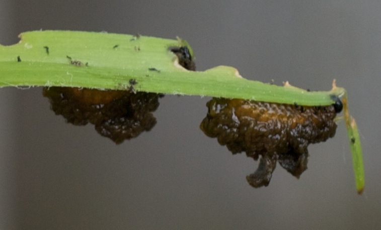 Larvae of a scarlet (red) lily beetle